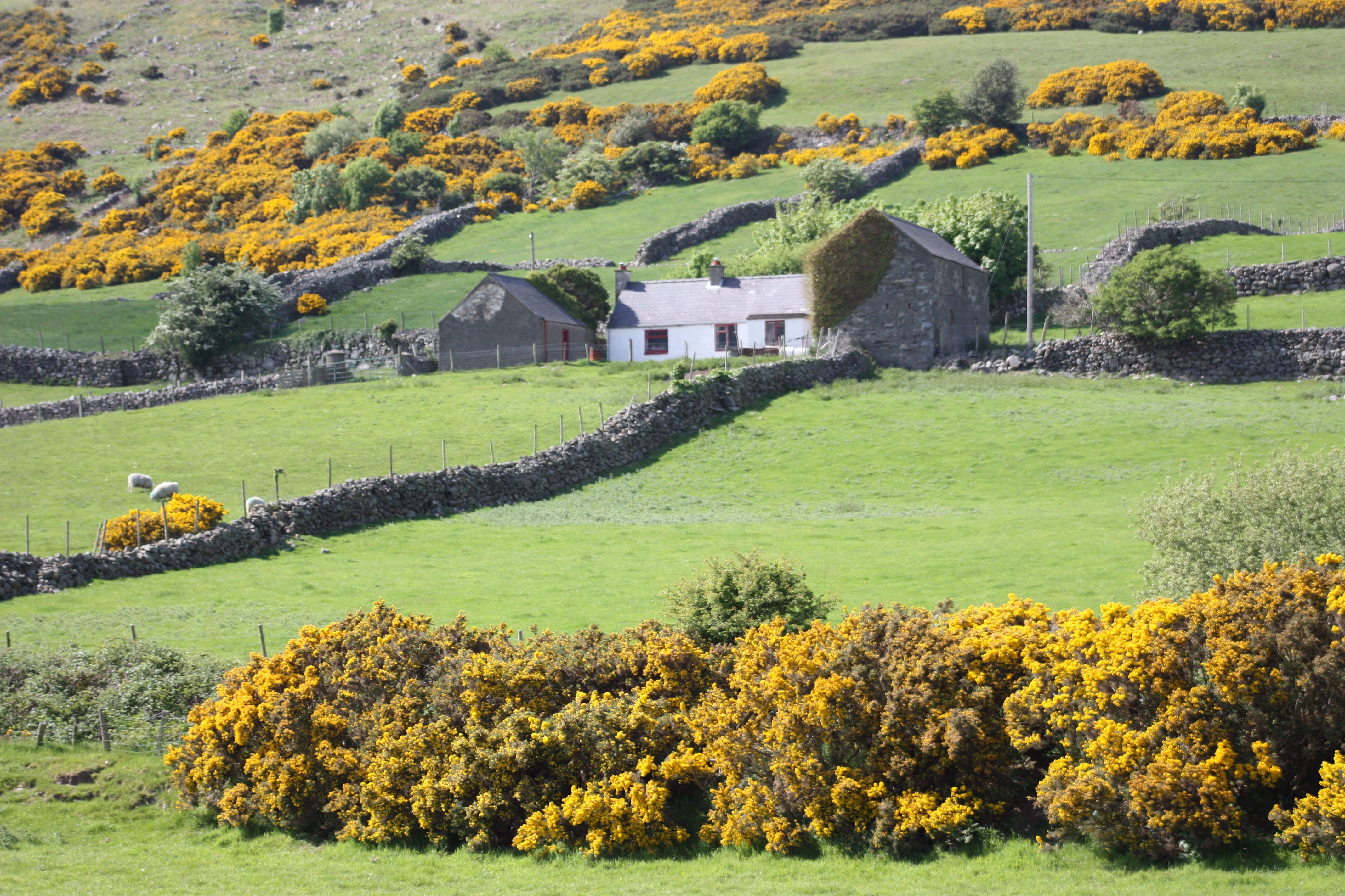 Countryside near Burrenbridge, Dublin Road, Castlewellan, County Down, Northern Ireland, May 2010